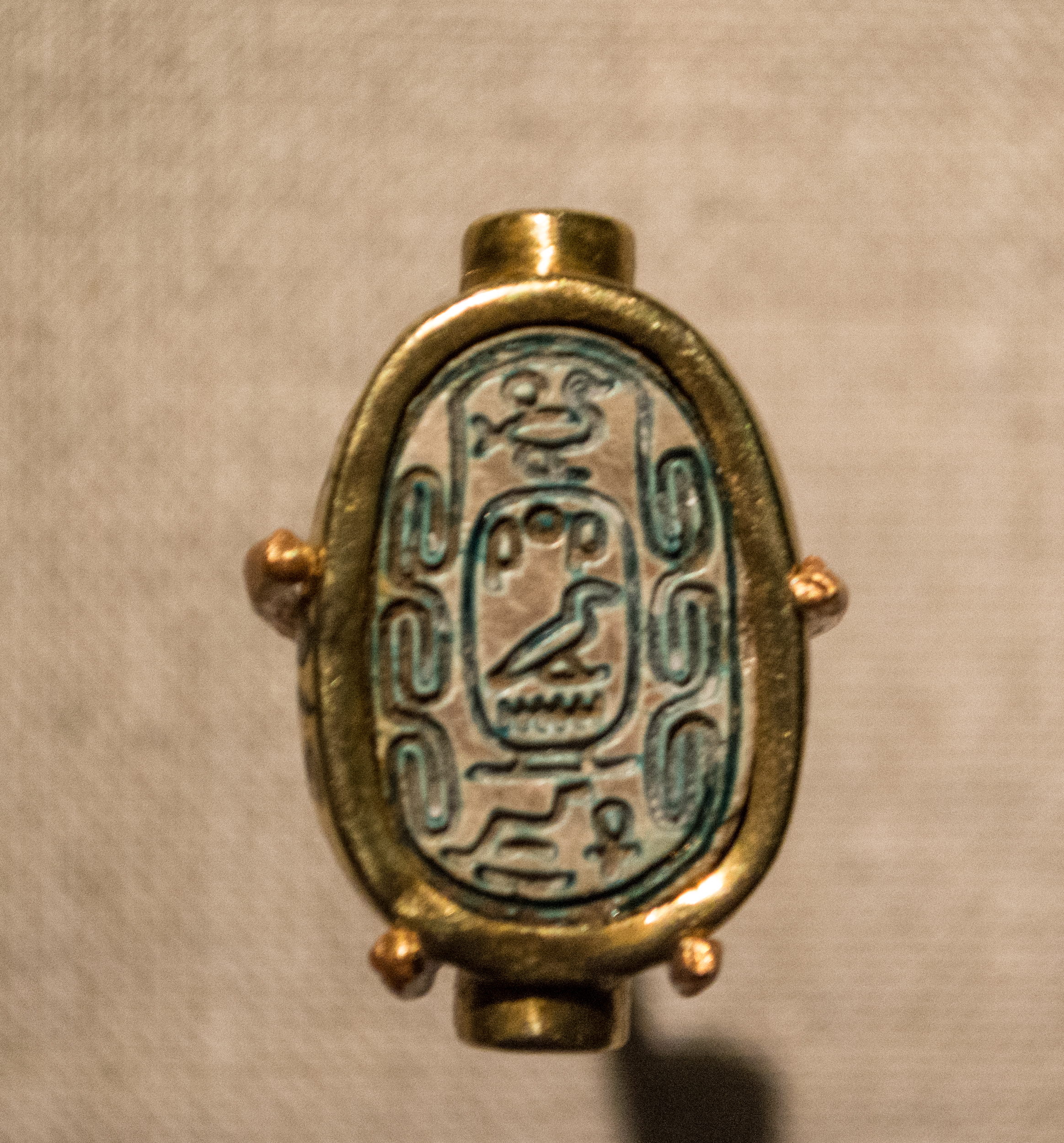 Flat-faced scarab, created in Egypt about 1648 to 1540 BC. Found in Egypt, but the location is not clear. This scarab, which was originally fitted onto a finger ring, contains the cartouche of the Pharaoh Khyan. Khyan was a foreigner who ruled Egypt from about 1610 to 1580 BC.